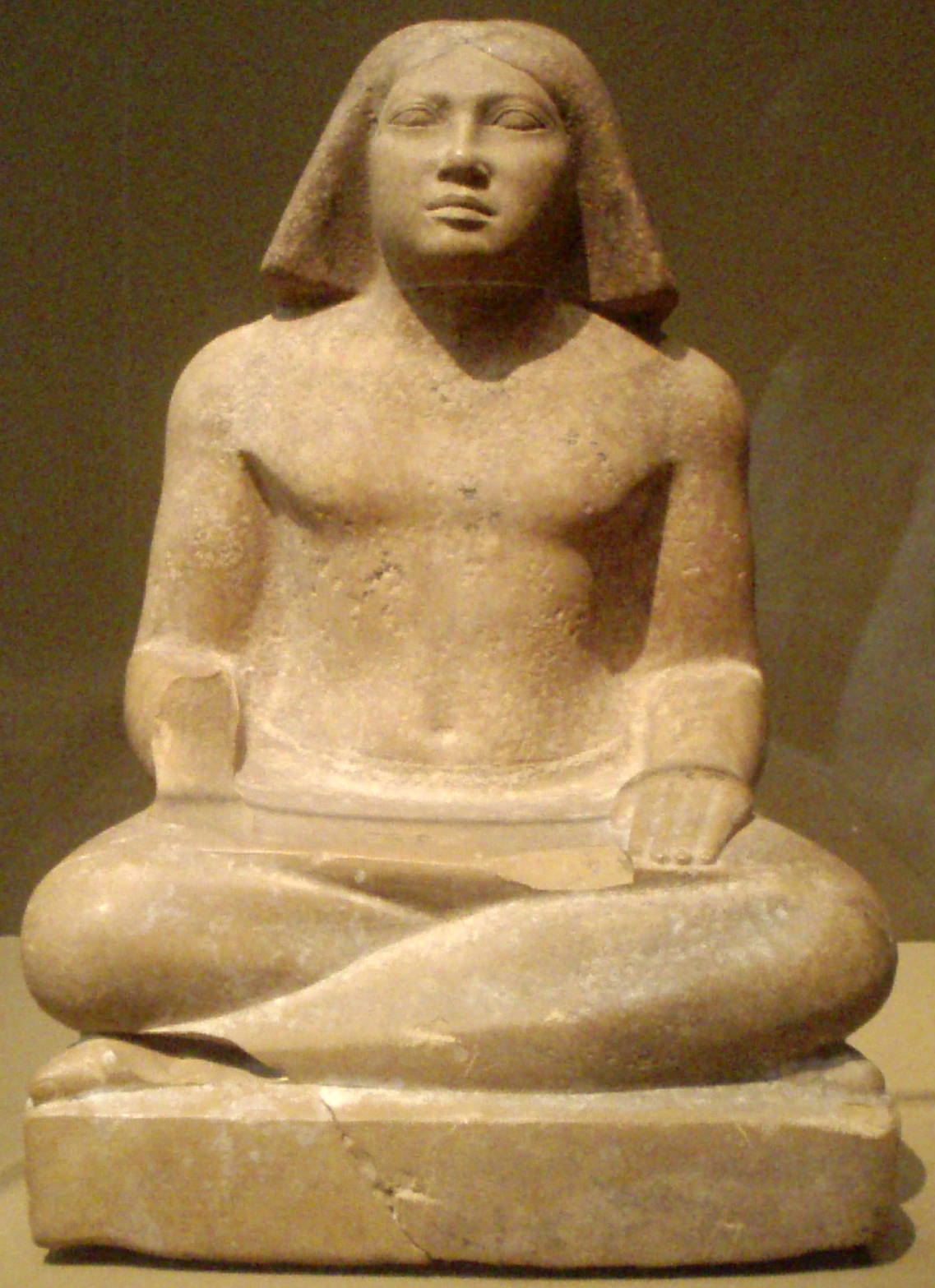 Statue of Prince Khuenre, son of Menkaura, seated in the attitude of a scribe. Made of limestone, and found in a cemetary cut into an old quarry close to the pyramid of the pharaoh Menkaura. Circa 2548-2524 B.C. Now at the Museum of Fine Arts, Boston. Museum Expedition 13.3140.